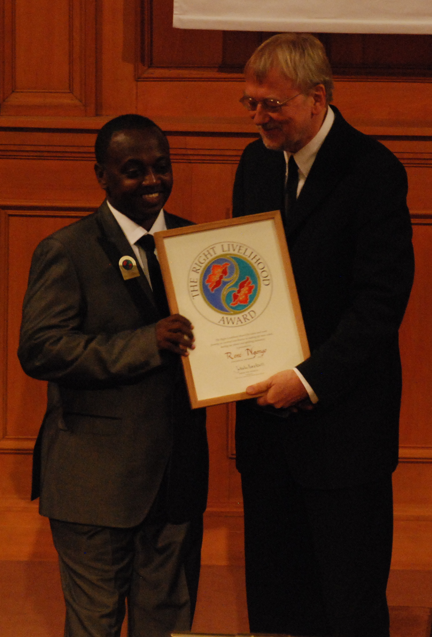 Award Ceremnony of the 30th Right Livelihood Award 2009: The prize is presented to René Ngongo (l) by Jakob von Uexküll (r).